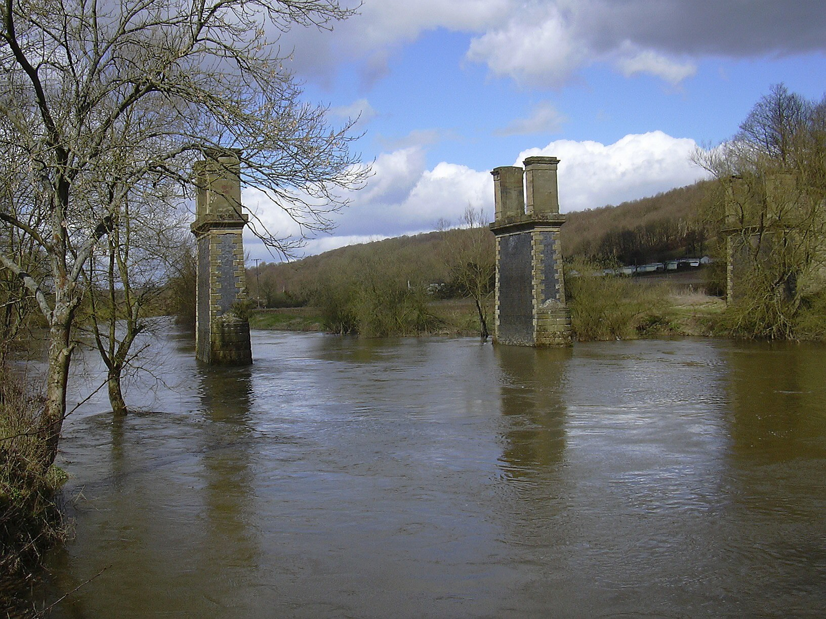 The remains of Dowles Bridge, just north of Bewdley